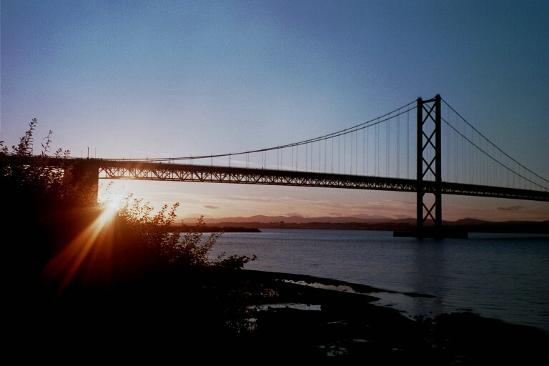 Forth Road Bridge, Firth of Forth, Scotland